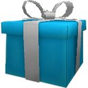 Gift icon from SuperTuxKart